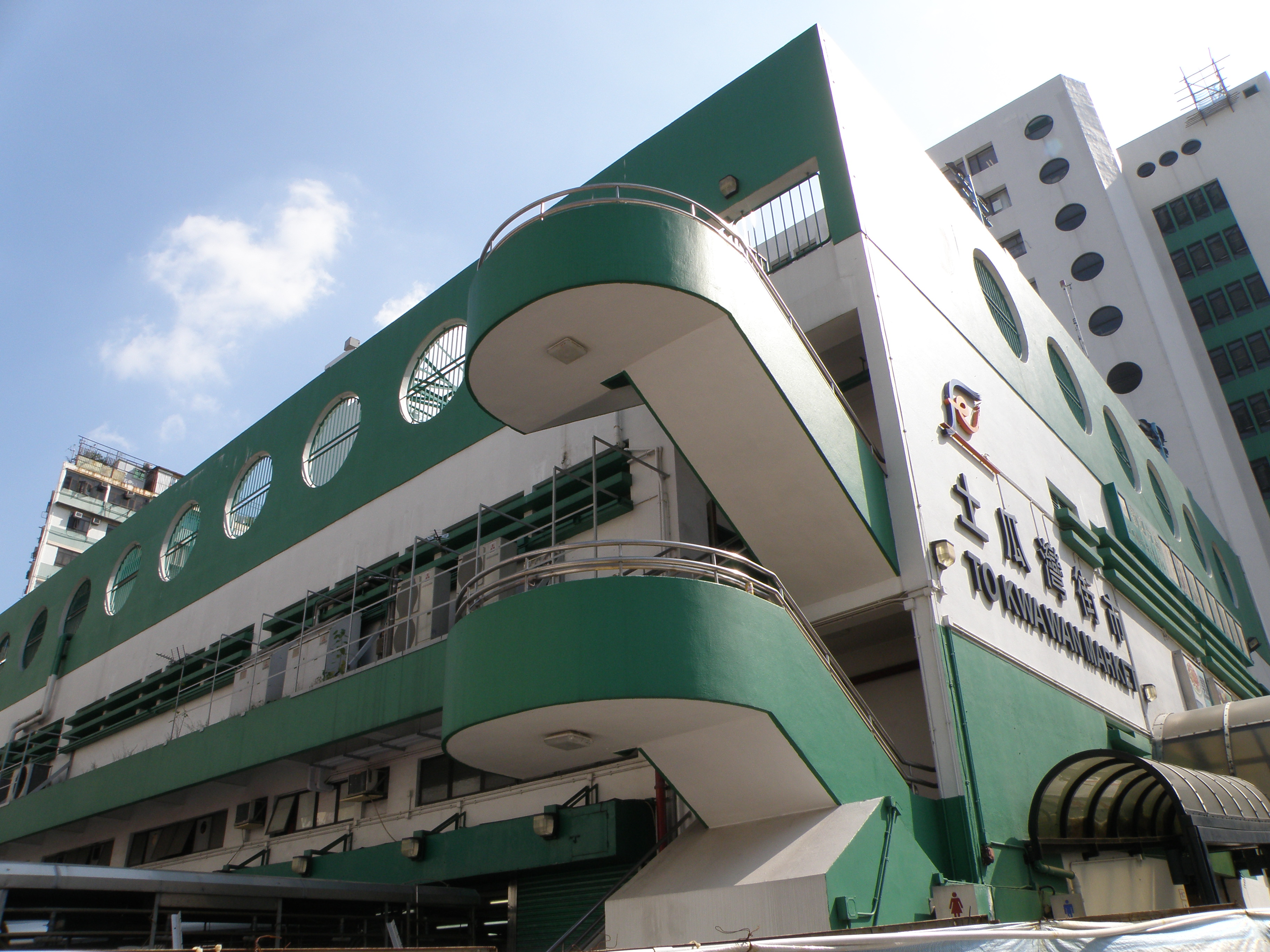 To Kwa Wan Market in To Kwa Wan, Hong Kong.